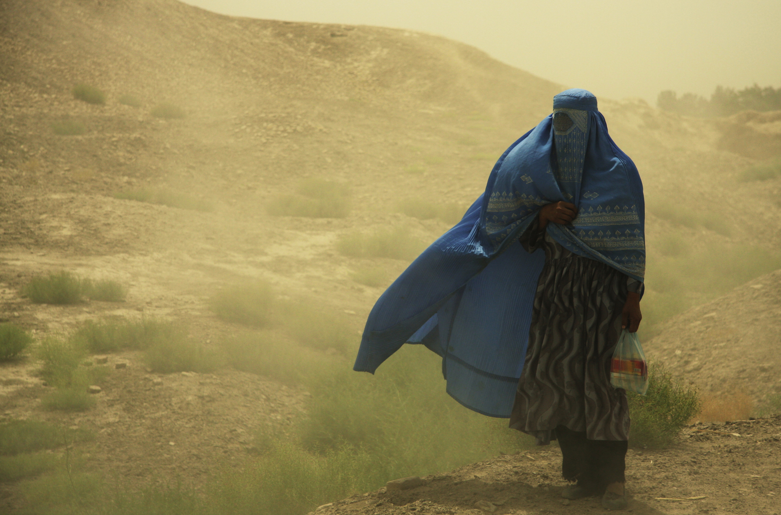 The photo shows a woman with burqa in a little sandstorm, near of Balkh. Photo by Dirk Haas of Germany.